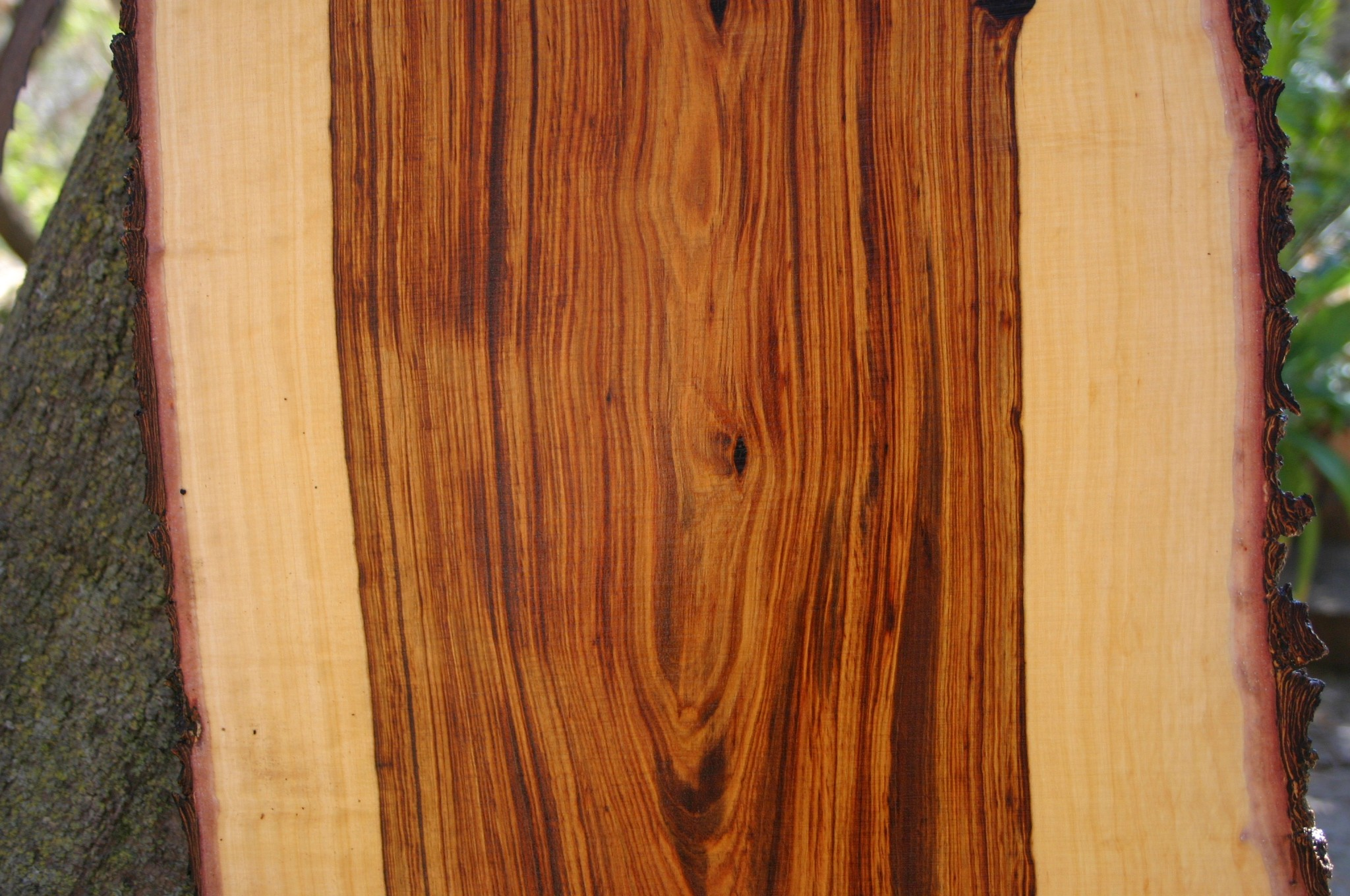 own image Paul venter 11:56, 31 July 2006 (UTC)